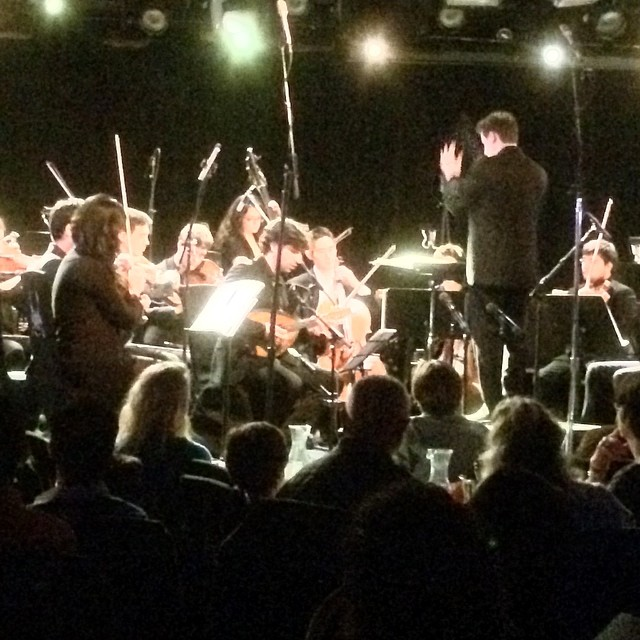 Avi Avital (with mandolin, center) at LPR.